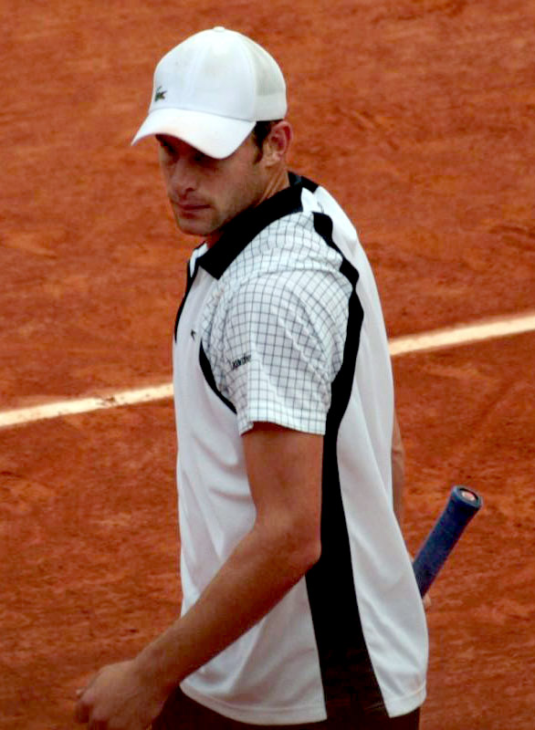 Andy Roddick at 2009 Roland Garros, Paris, France